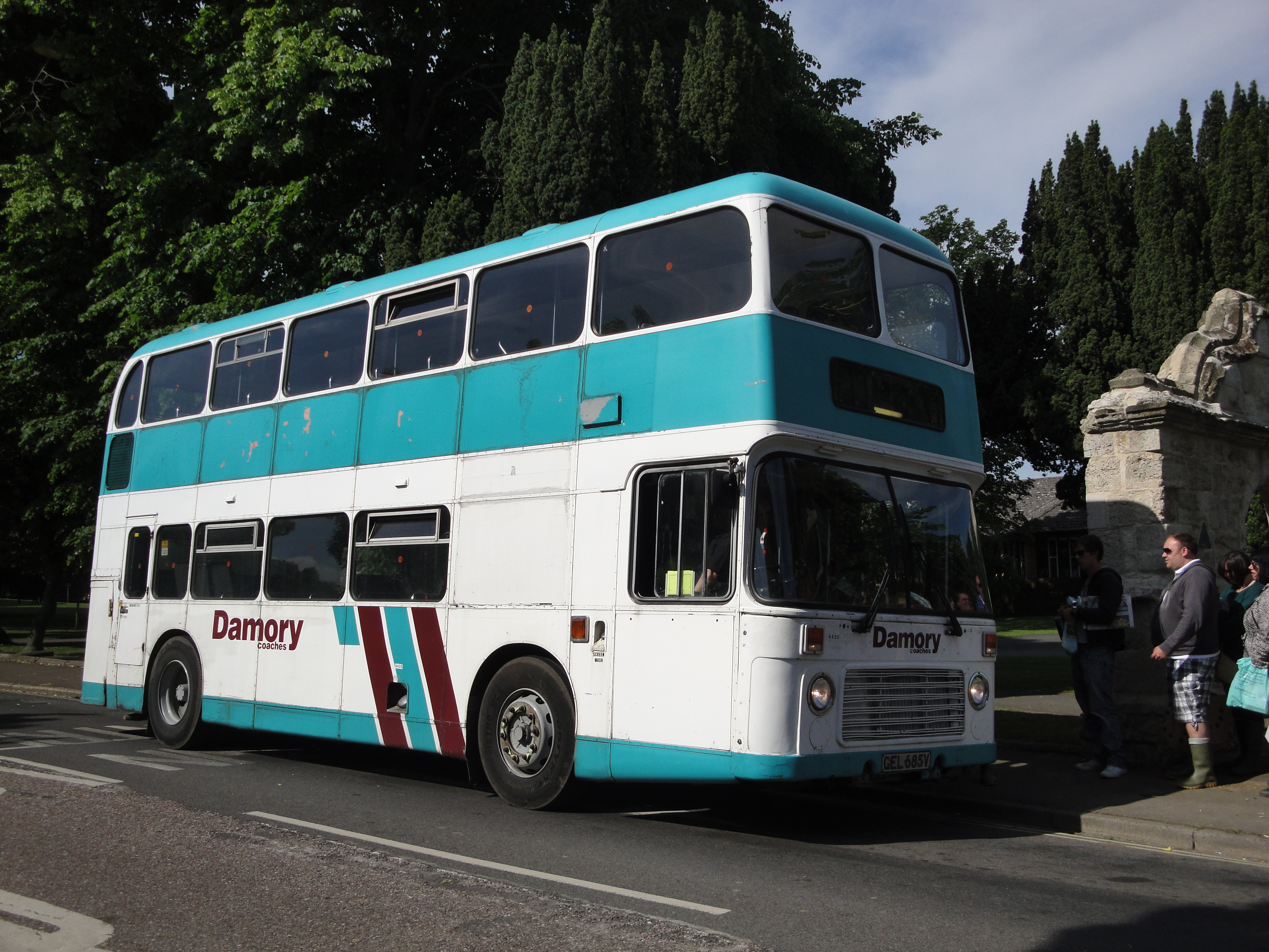 Damory Coaches 5069 (GEL 685V), a Bristol VRT/ECW in Church Litten, Newport, Isle of Wight operating the shuttle service between the town and the Isle of Wight Festival 2010 site.